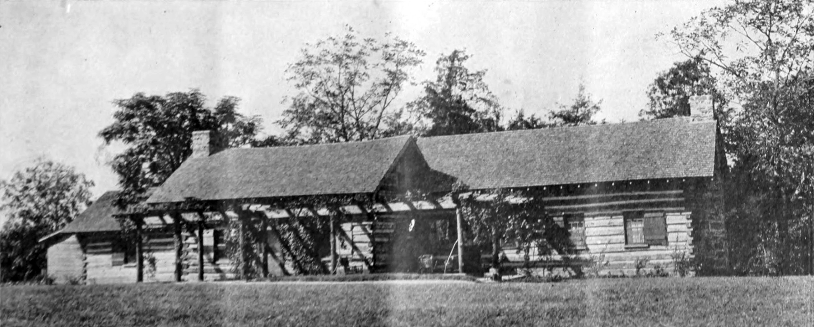 "The Blue Eyed Cabin - Mrs. Harris's Valley Home."